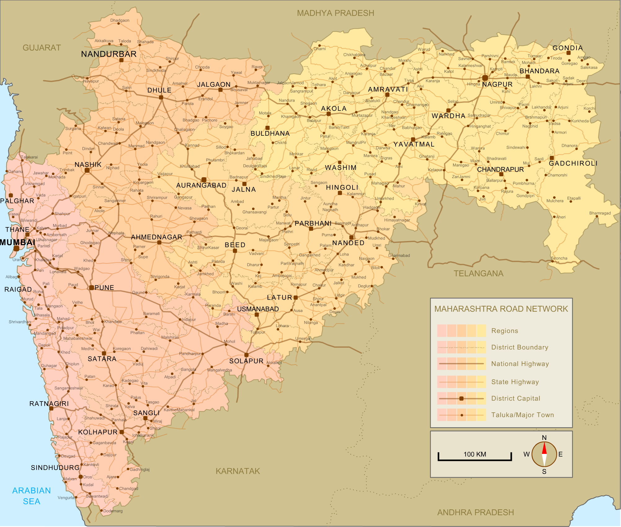 The graphic is about the major road network of Maharashtra state, India. It displays the National and State highways network in the State. Also, the districts and taluka/important towns are displayed.